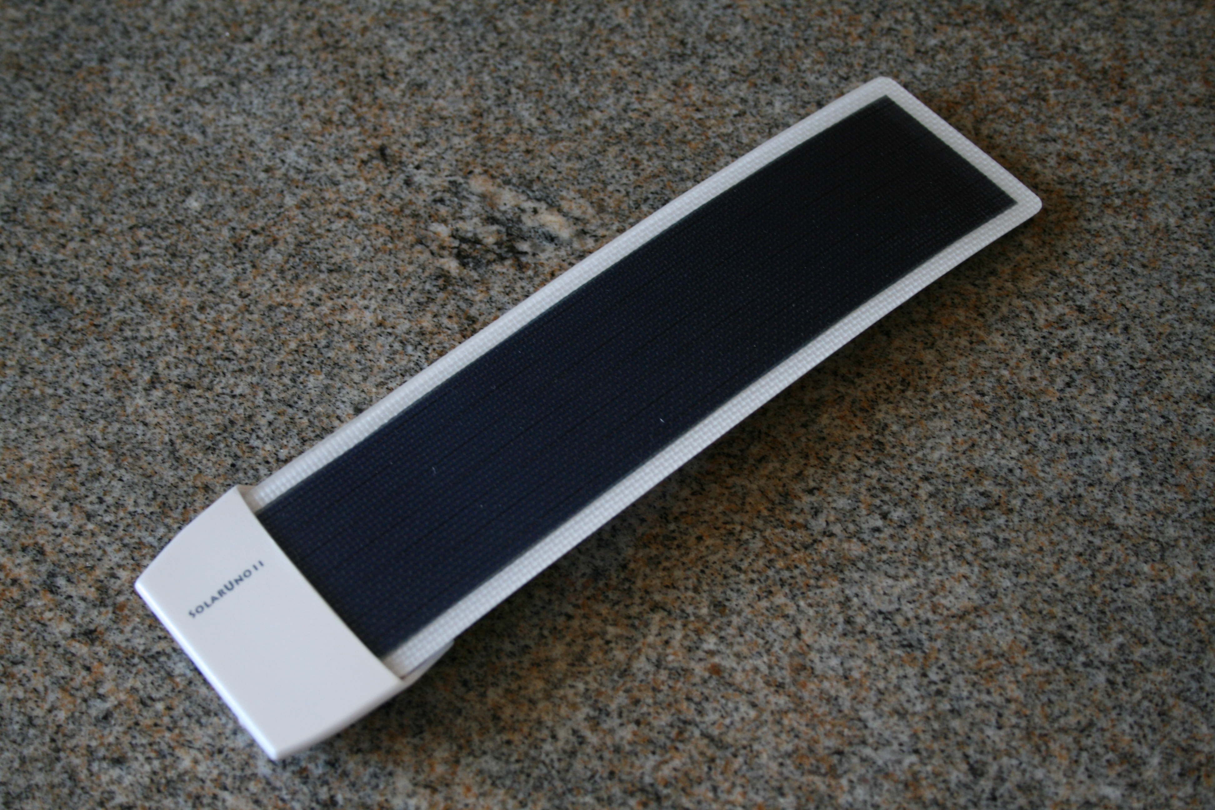 Small portable solar charger with 2× 1.5V cells and USB output. Front view